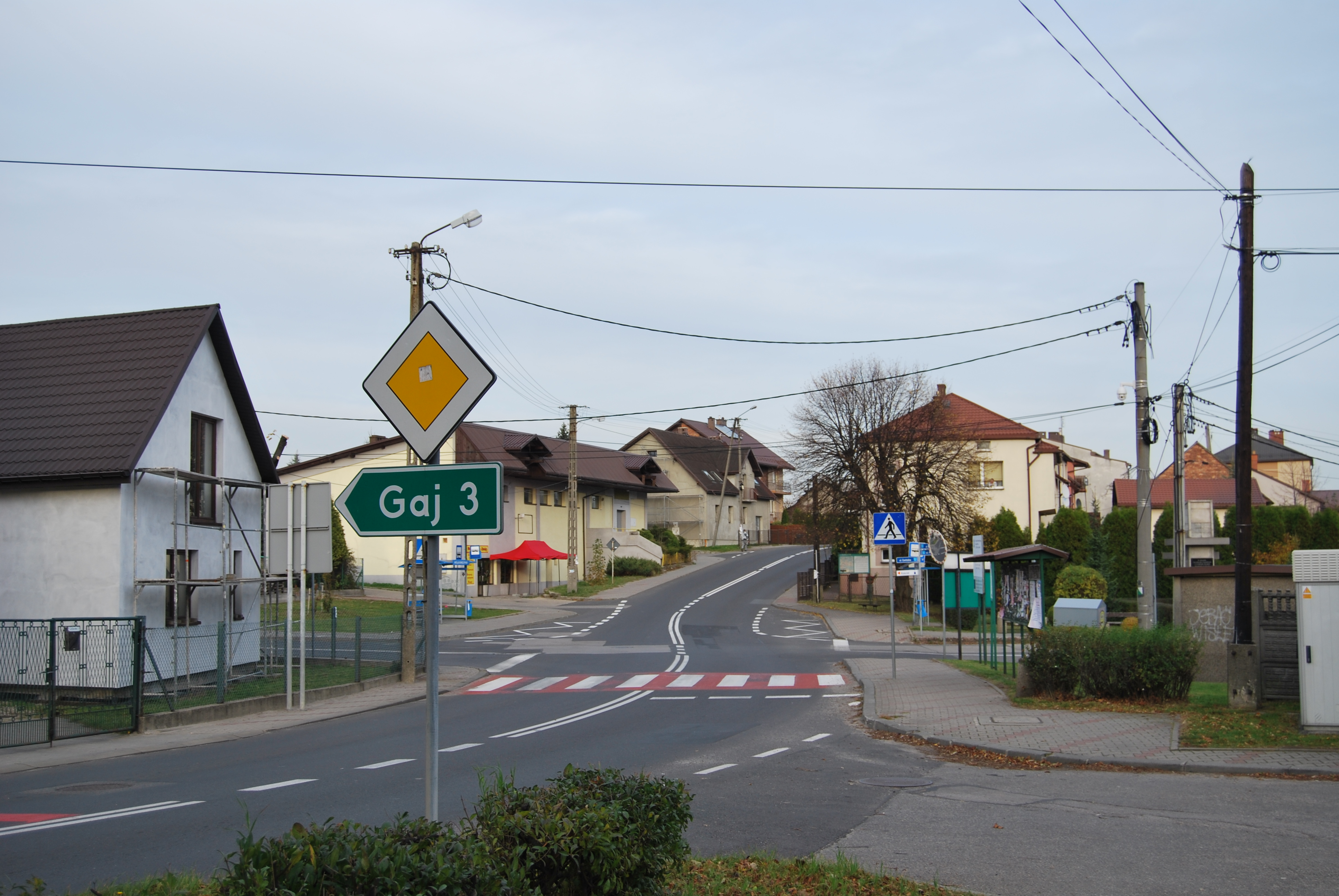 Myślachowice center.